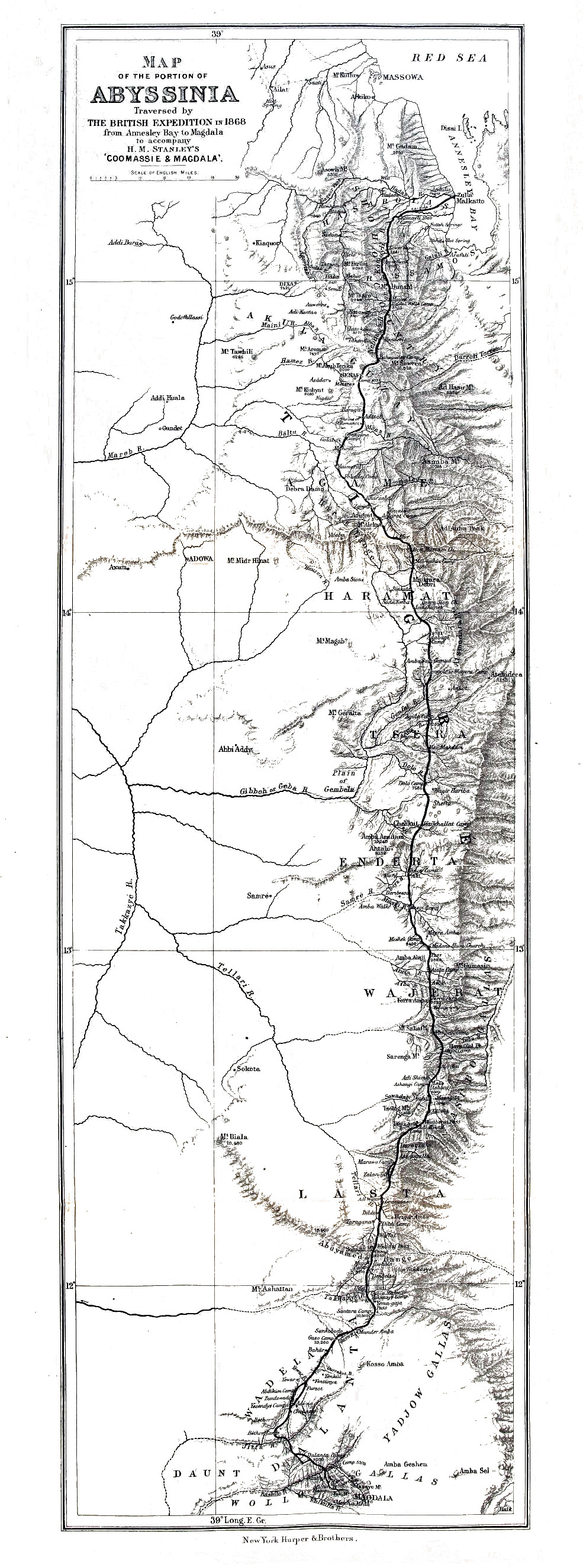 "From Annesley Bay to Magdala to accompany H. M. Stanley's Coomassie & Magdala" Route of the British Expedition to Abyssinia